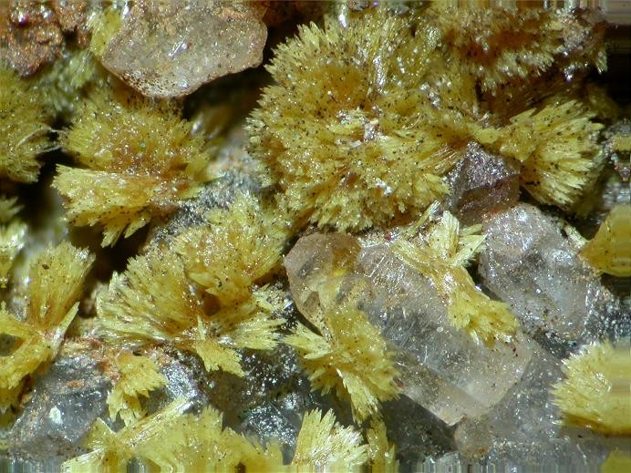 Tsumcorite Locality: Tsumeb Mine (Tsumcorp Mine), Tsumeb, Otjikoto (Oshikoto) Region, Namibia (Locality at ) Field of view: 7 mm. Depth of field is achieved with CombineZM. Collection and photo: Leon Hupperichs.